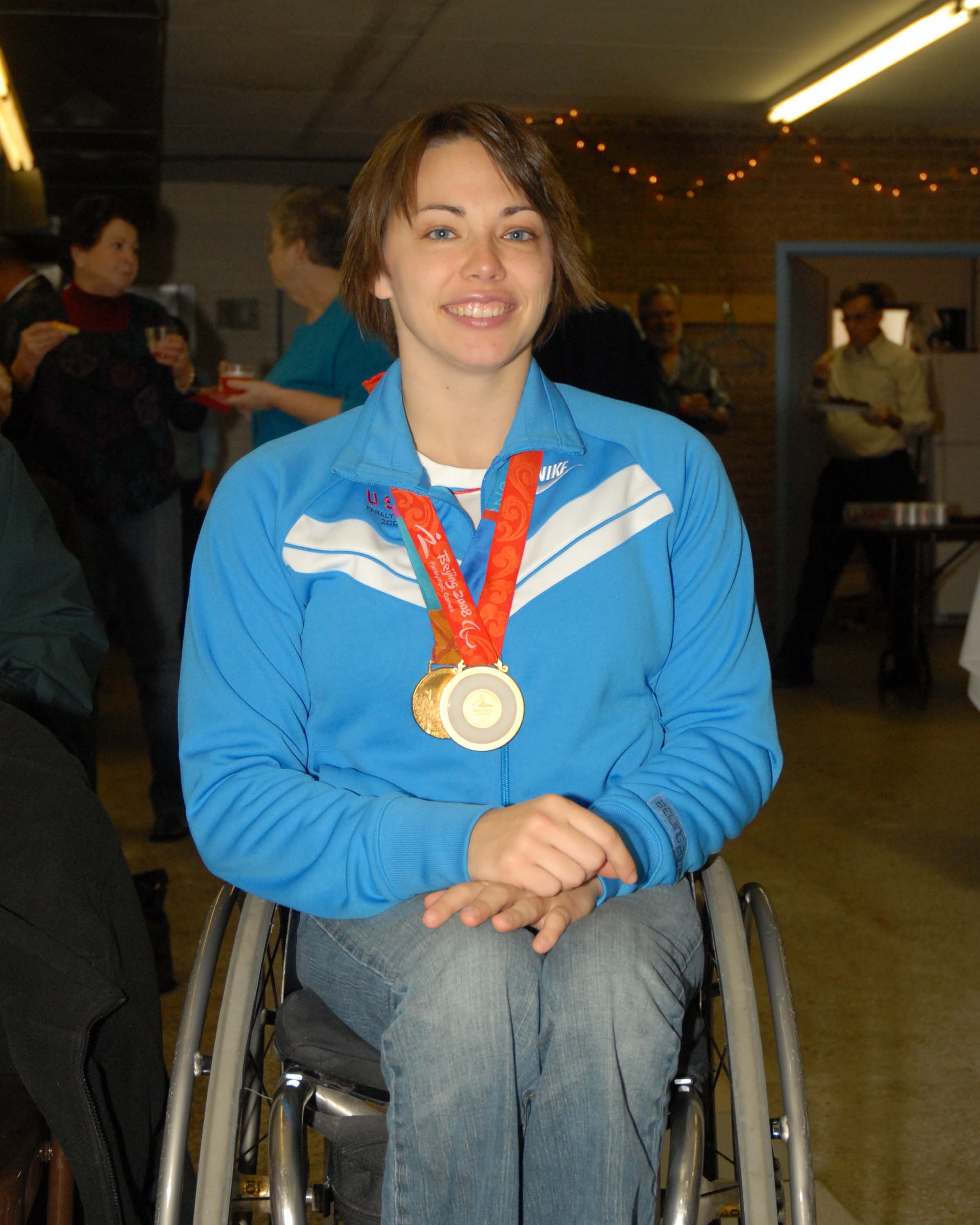 Stephanie Wheeler - 2008 Olympic Gold Medalist